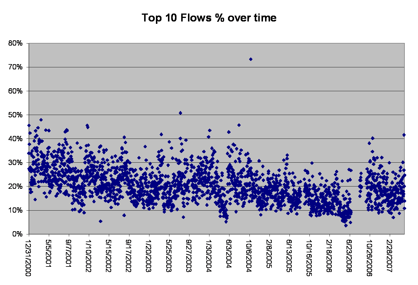 Author:Lord Phat